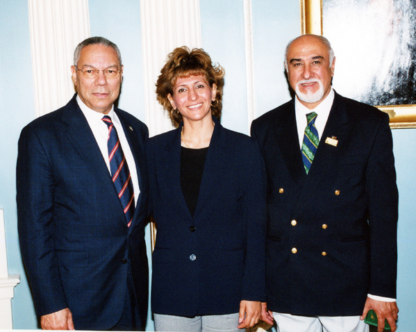 Original caption states, Washington, DCApril 20, 2004Secretary Powell met with Dr. Iman Sabeeh, member of the Executive Office of the National Olympic Committee of Iraq, center, and Ahmed Al-Samarrai, right, the newly-elected President of the NOCI